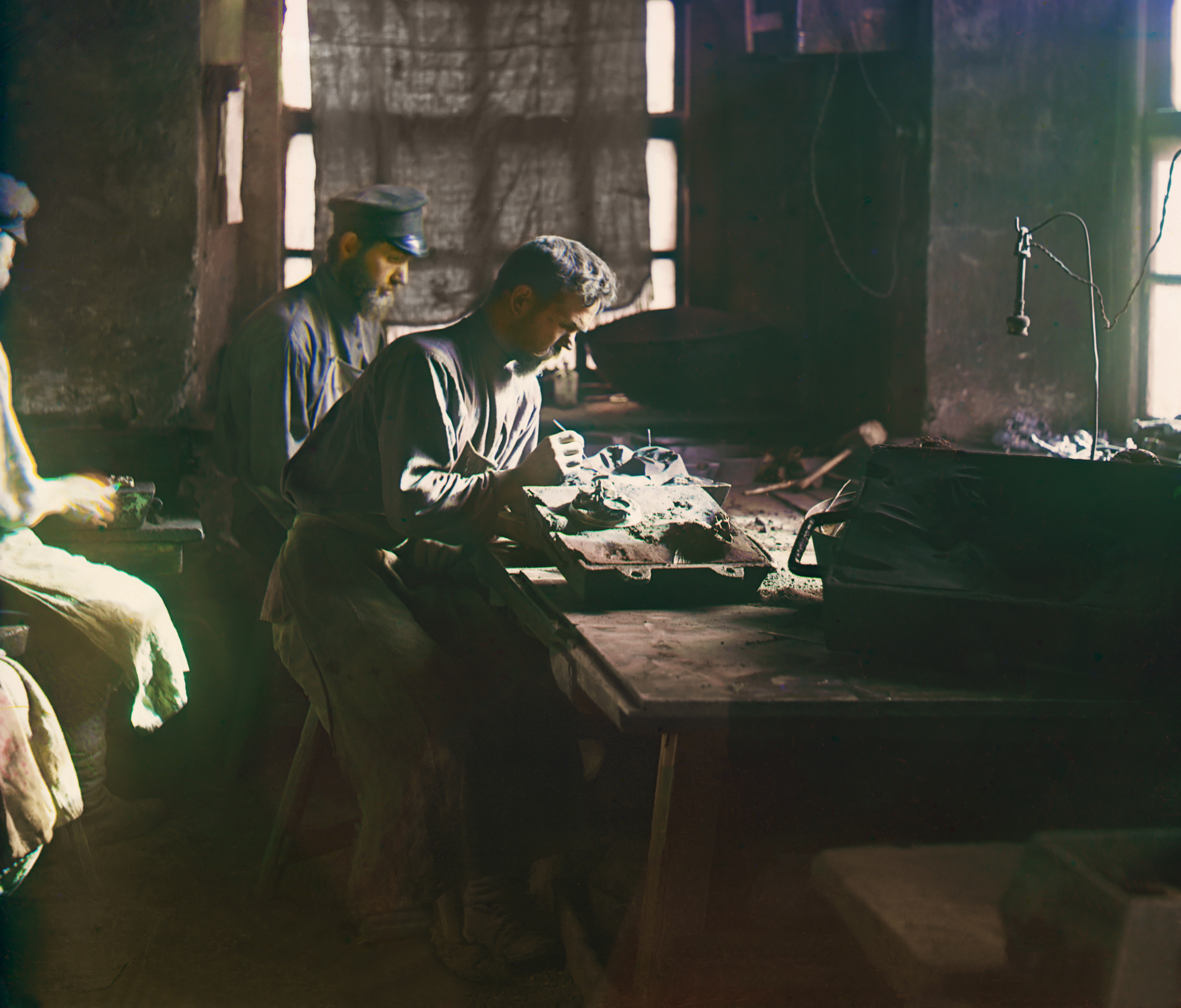 Original Description: Molding of an artistic casting. [Kasli Iron Works]. Production of artistic casting in the Kasli Iron Works, located in the heart of the Ural Mountains between the cities of Ekaterinburg and Cheliabinsk. The plant was known for the high quality of its cast iron products and for its highly-skilled work force, which numbered over three thousand persons at the time this photograph was taken.